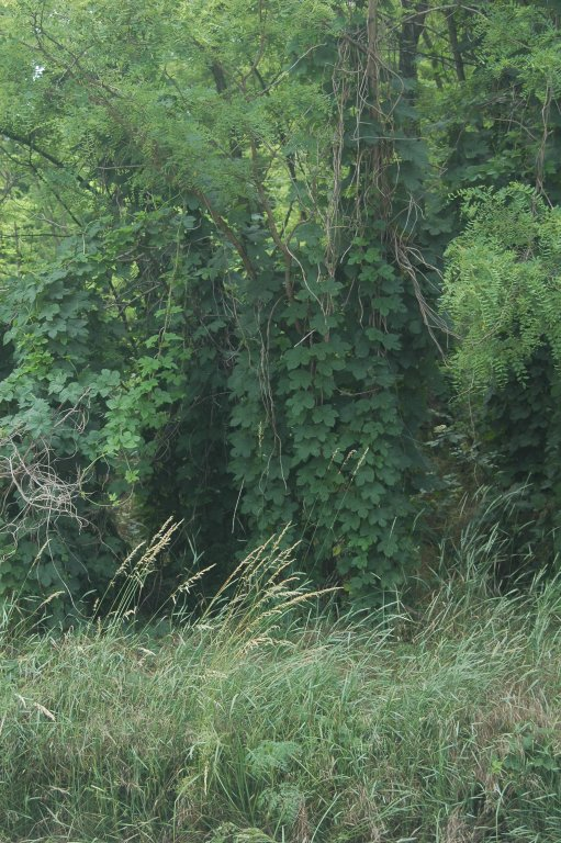 Liana in the forest